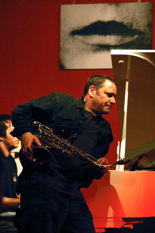 Jazz player Gilad Atzmon in concert